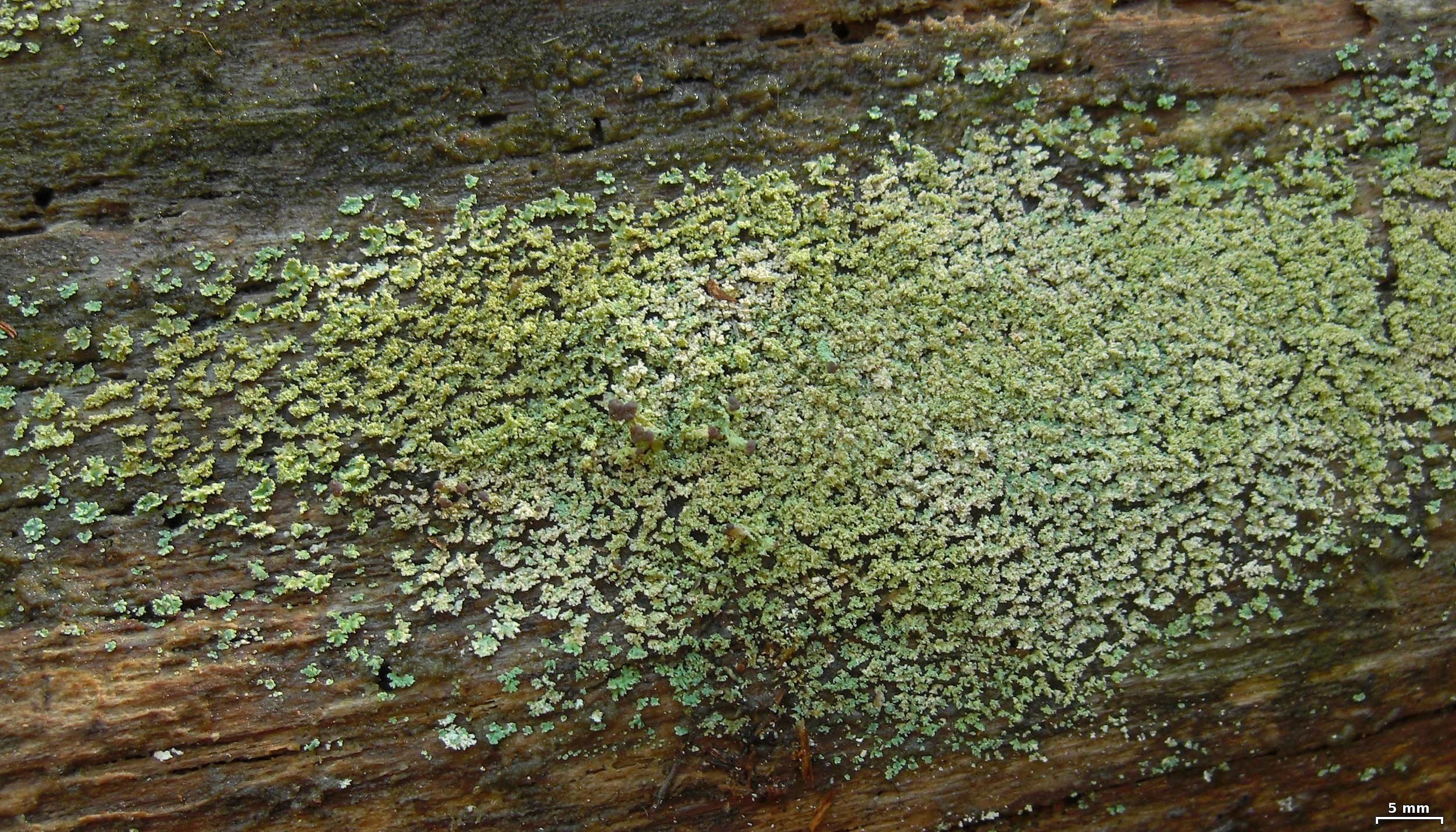 near Alexander Springs, Ocala N.F., Florida, 20101219